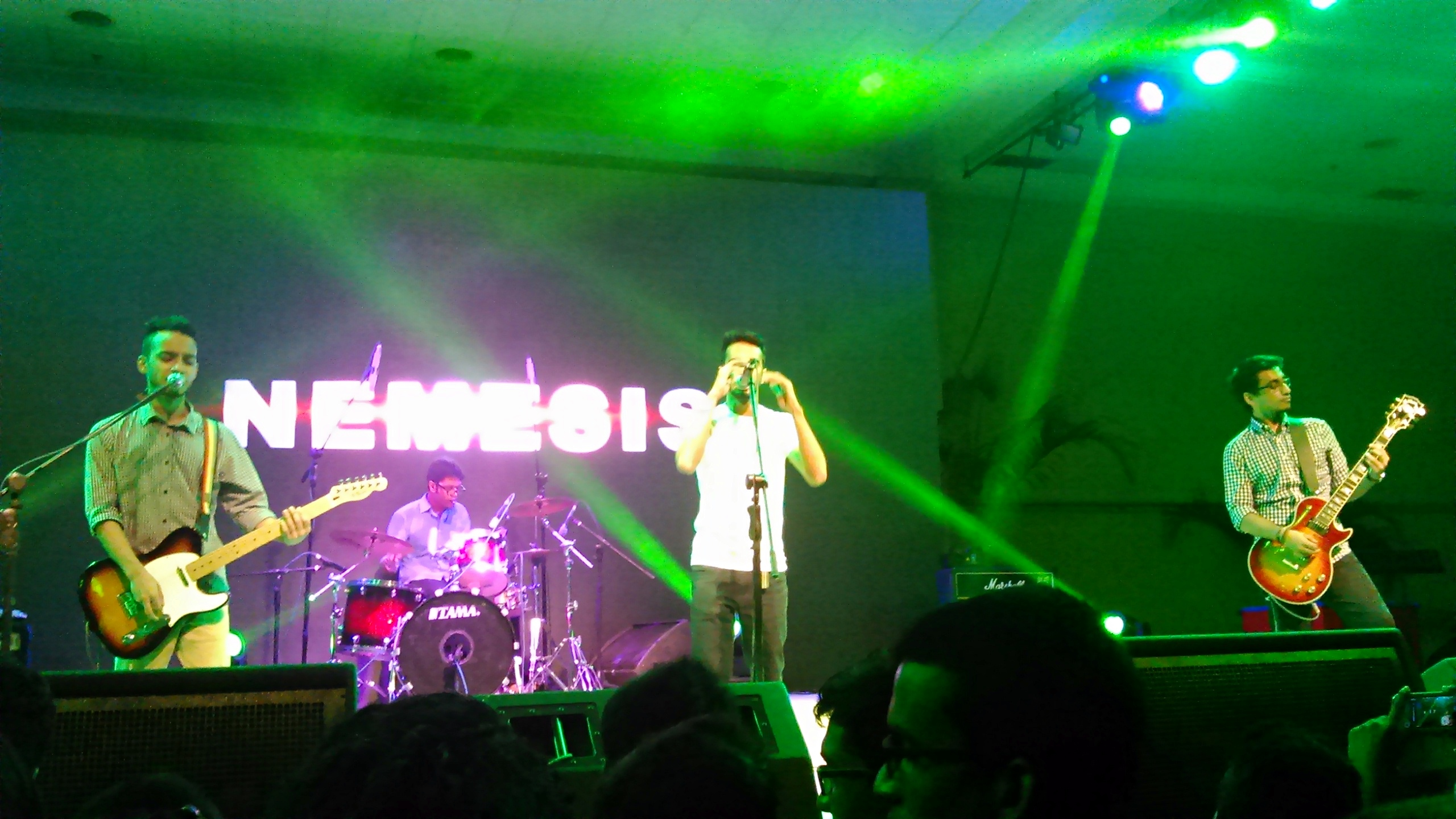 Nemesis band performing at Winter Garden,Hotel Ruposhi Bangla,Dhaka